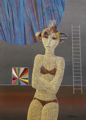 Egg tempera painting by Jesús Vilallonga. Photograph by Katherine Slusher